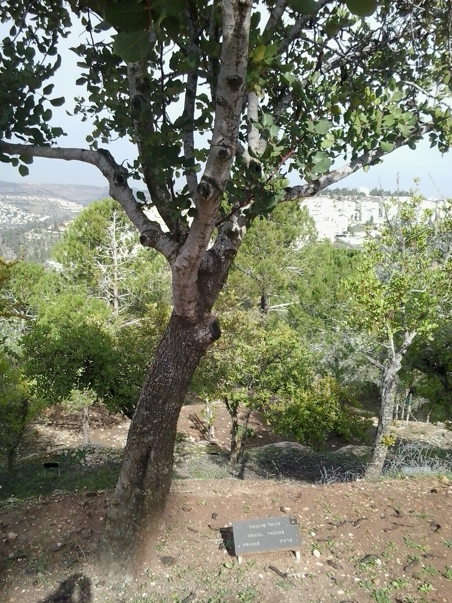 a tree planted at Yad Vashem honoring Daniel Trocme